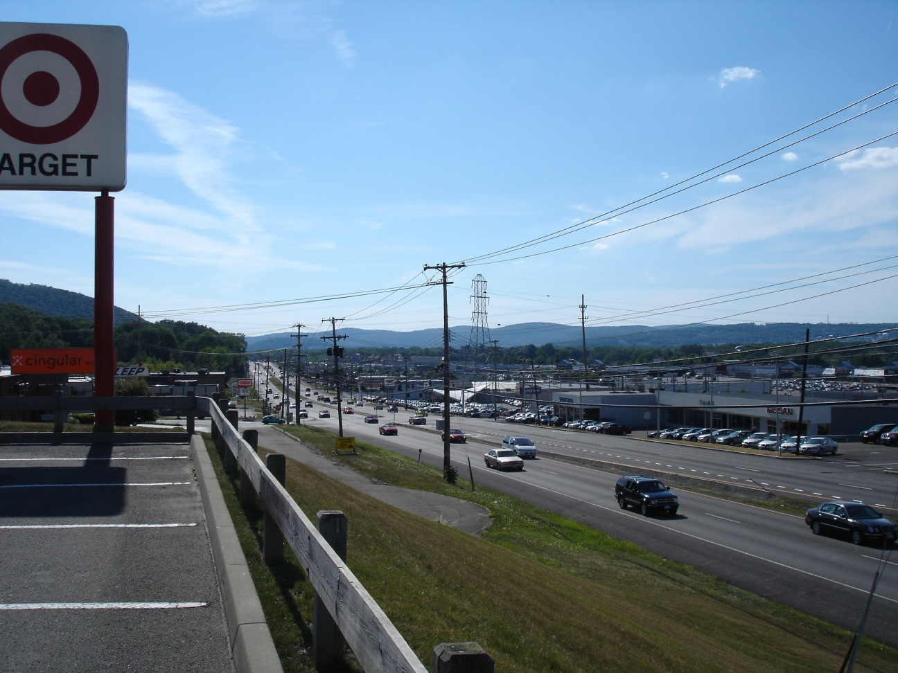 View from the Parkway Plaza looking WNW, with the Vestal Parkway, NY-434, Vestal's main arterial road in the foreground, stretching west. Part of the Town Square Mall, Vestal's largest shopping center can be seen stretching from the center-right to the center of the photo. Its medium-sized anchor stores have triangular-shaped architecture on top of its entrances. The Town Square Mall's super-anchors are Wal-Mart Supercenter (dark blue in back), Sam's Club, and Lowe's. The later two are not in the photo.Original description; Camera: SONY DSC-P100 Date: 8/6/2005 Location: Vestal, New York, USA Photographer and Uploader: Kai Brinker